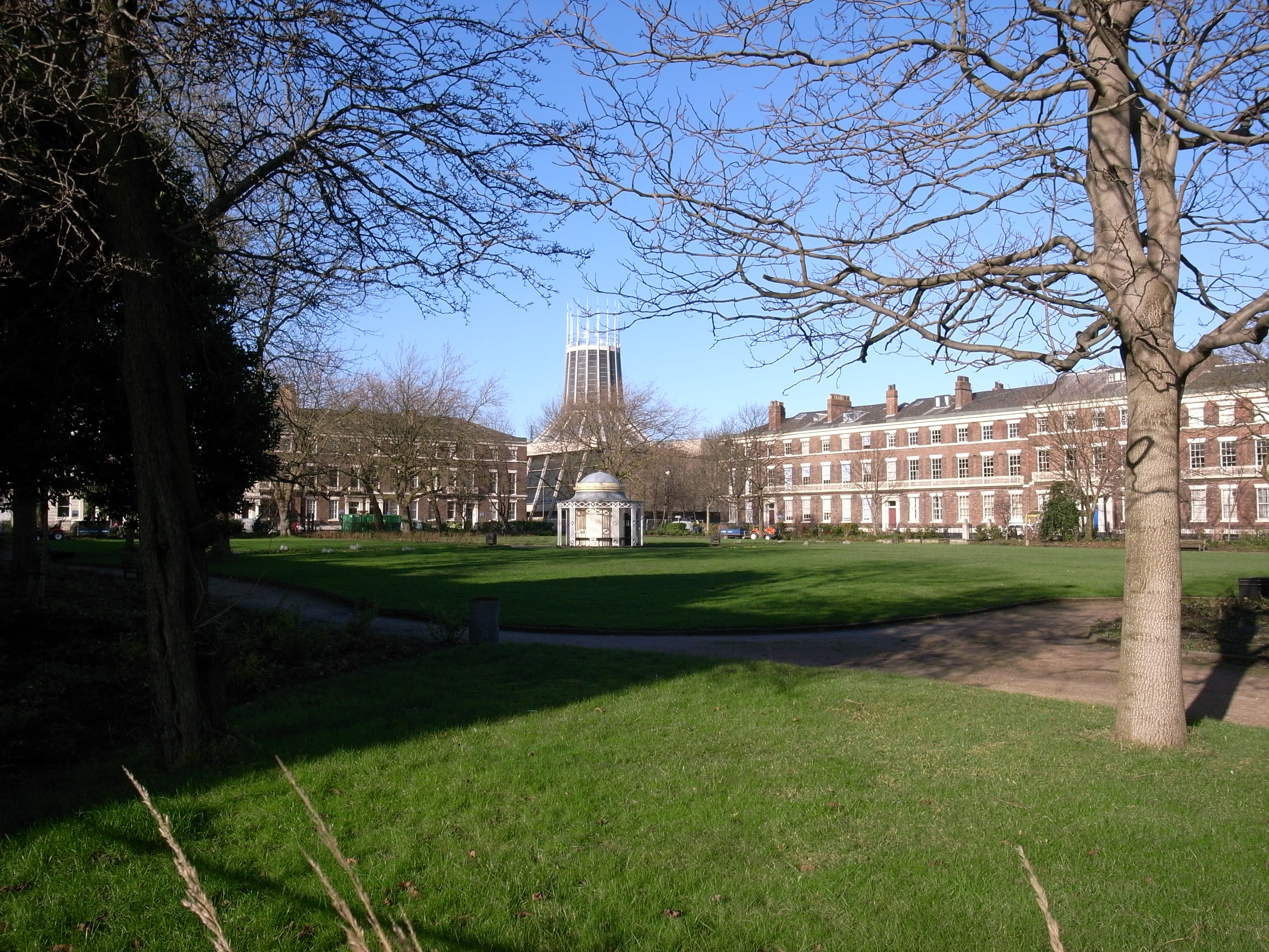 Abercromby Square, close to the University of Liverpool, England. The Liverpool Metropolitan Cathedral is visible across the square.